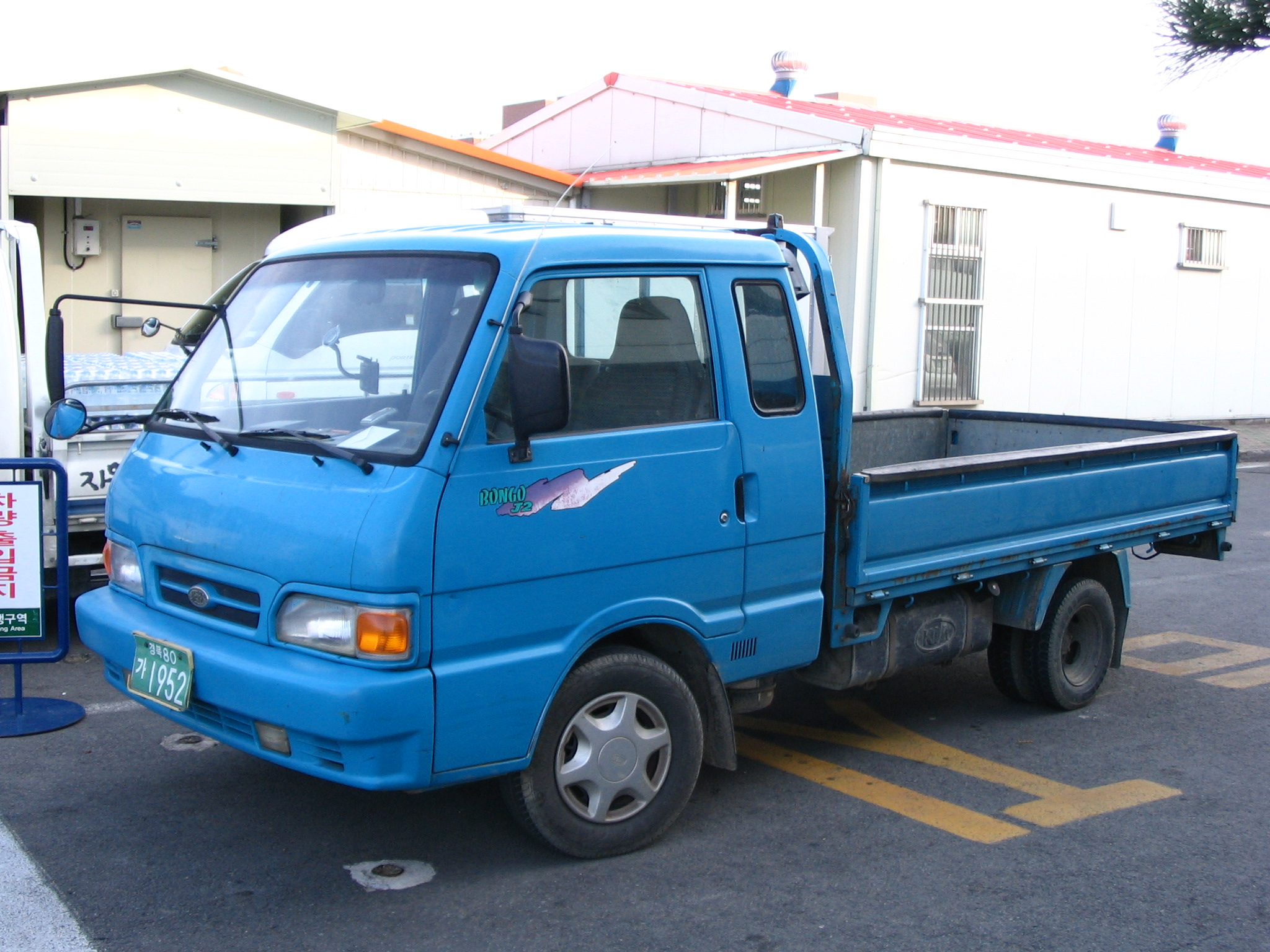 I took this picture myself in Pohang, South Korea on October 22, 2007.